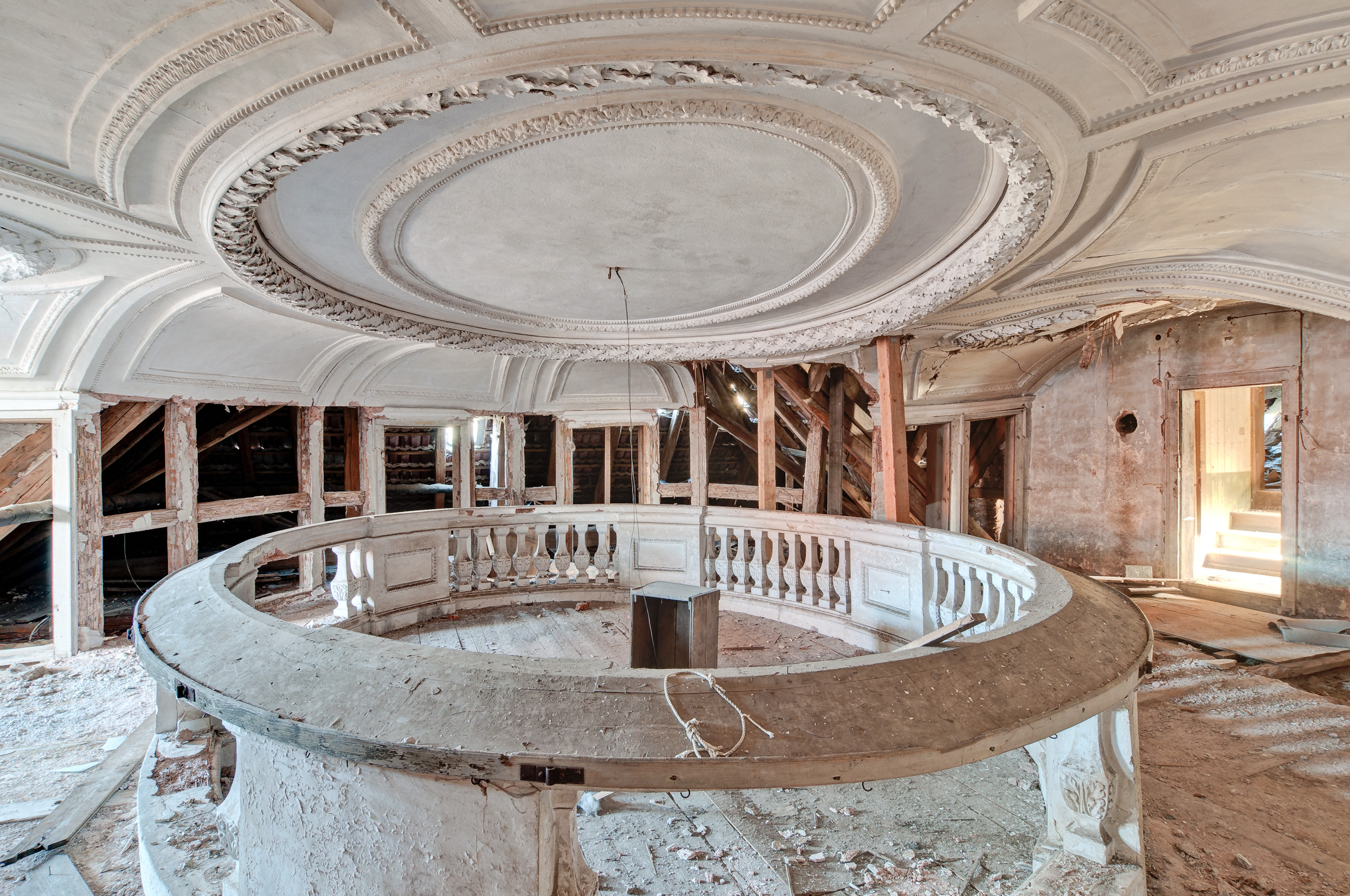 Chapel Rathsfeld Palace